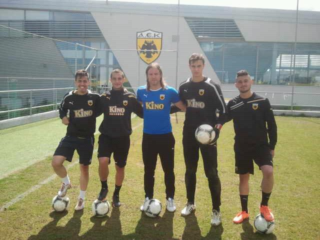 Heiner Backhaus in action